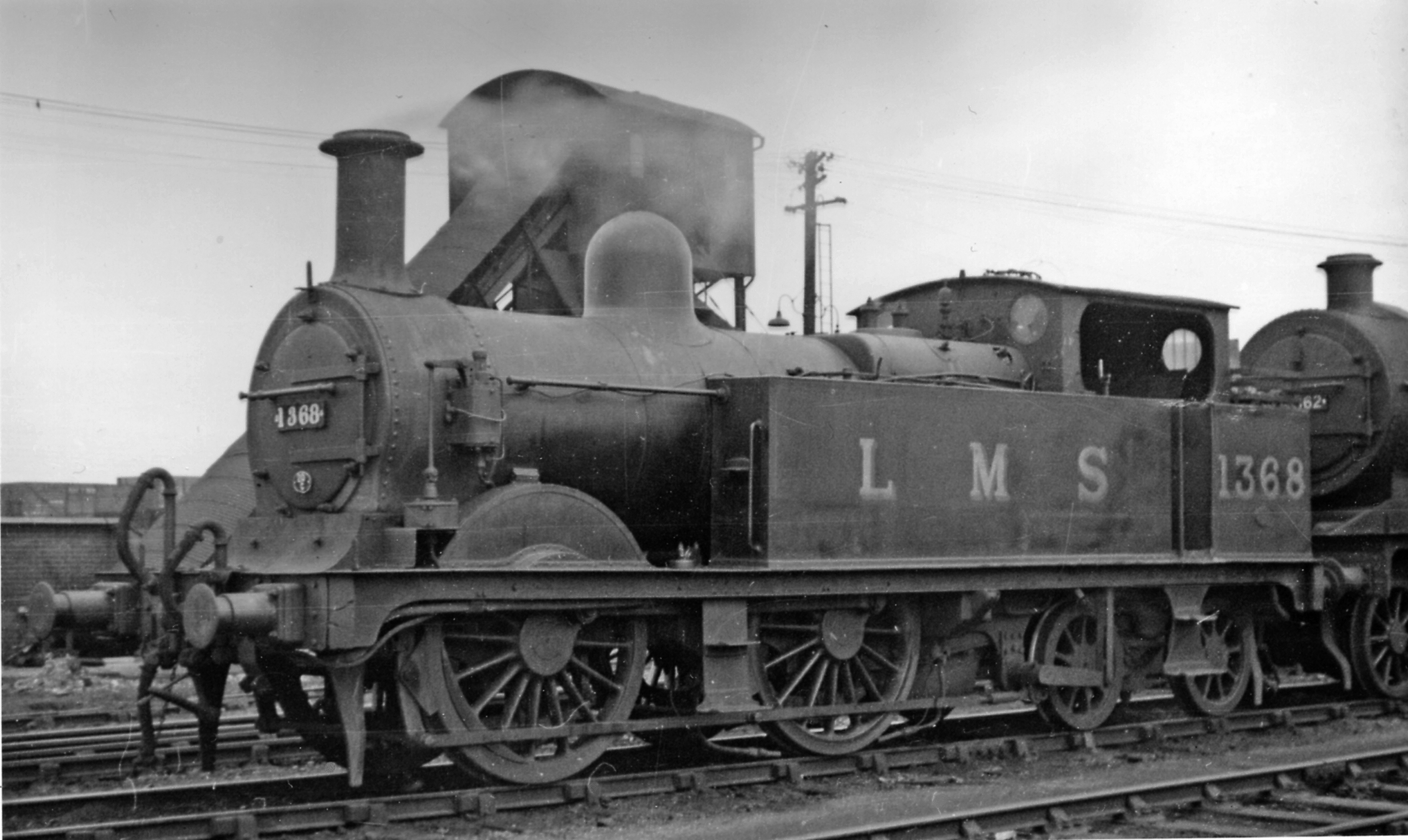 Ex-Midland 1P 0-4-4T at Royston Locomotive Depot. No. 1368 (still with LMS livery and number) is fitted for auto-train working, on the Cudworth - Barnsley service: it was built in the 1890s, being one of the large Johnson '2228' class rebuilt with Belpaire boiler by Fowler after Grouping; it survived (as BR No. 58066) until 10/58.